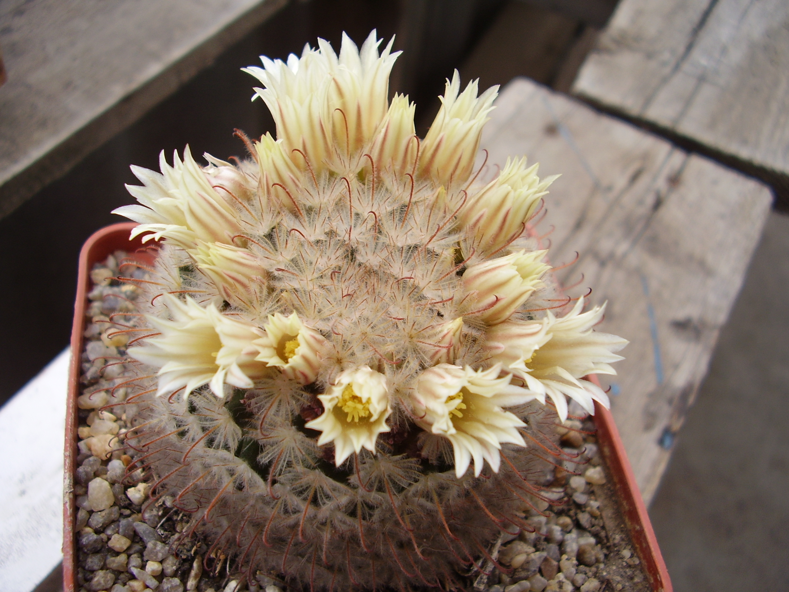 Mammillaria penispinosa from collection of Yuriy Shostak, Mykolaiv, Ukraine